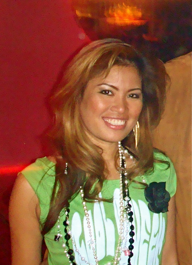 Zarah at the B InTune Event held at the Viper Room in Hollywood, CA in 2008.